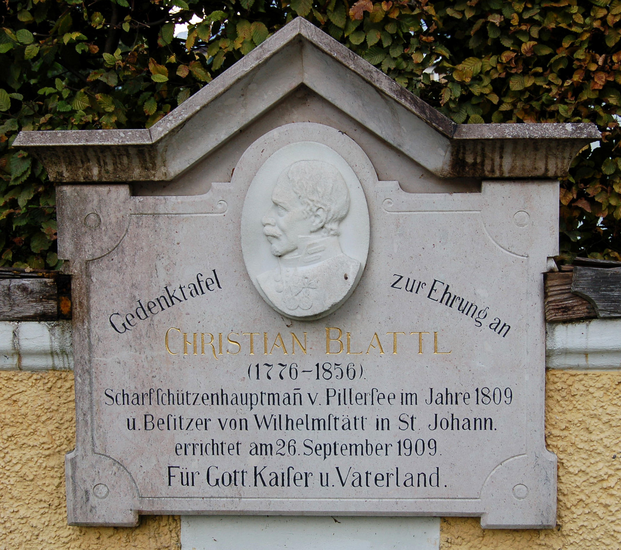 Memorial of Christian Blattl in St. Johann in Tirol